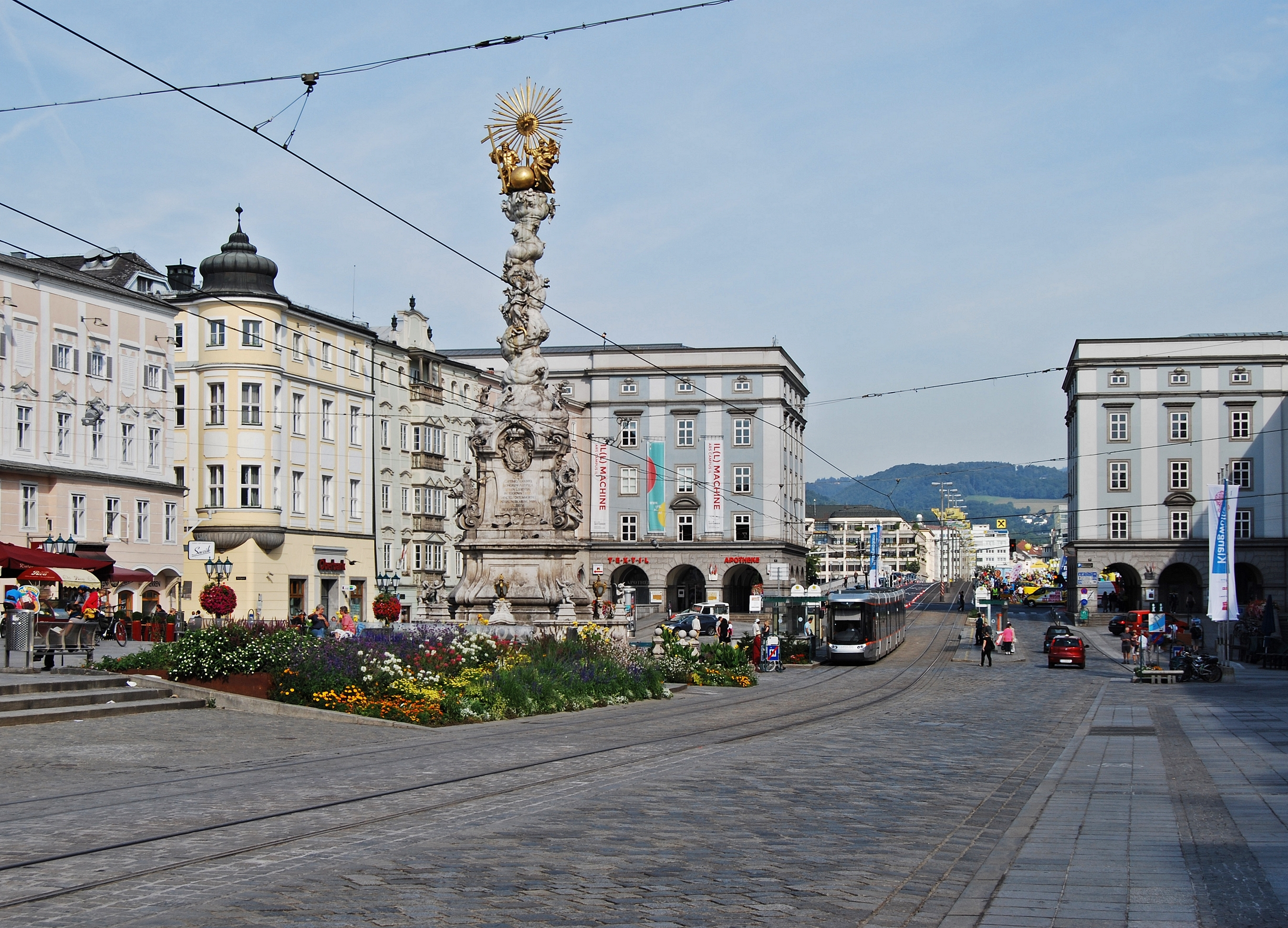 The main square of Linz, capital of Upper Austria, with the Holy Trinity column.